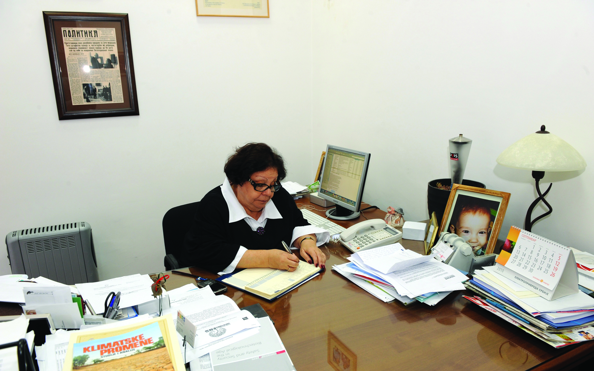 Human rights activist Sonja Licht, a founding member of the Jefferson Institute, in her office at the Belgrade Fund for Political Excellence.